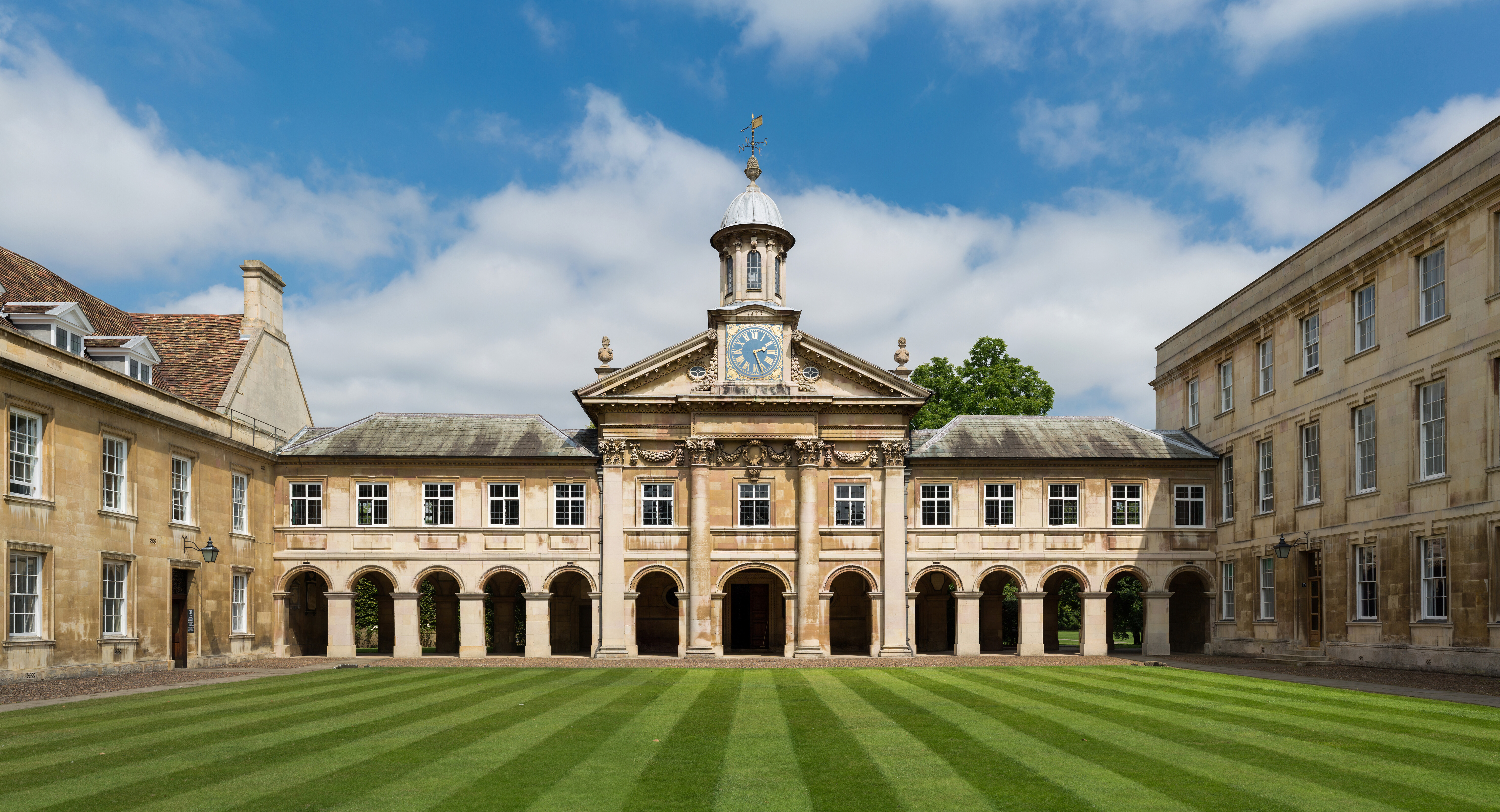 The front court of Emmanuel College in Cambridge, England.